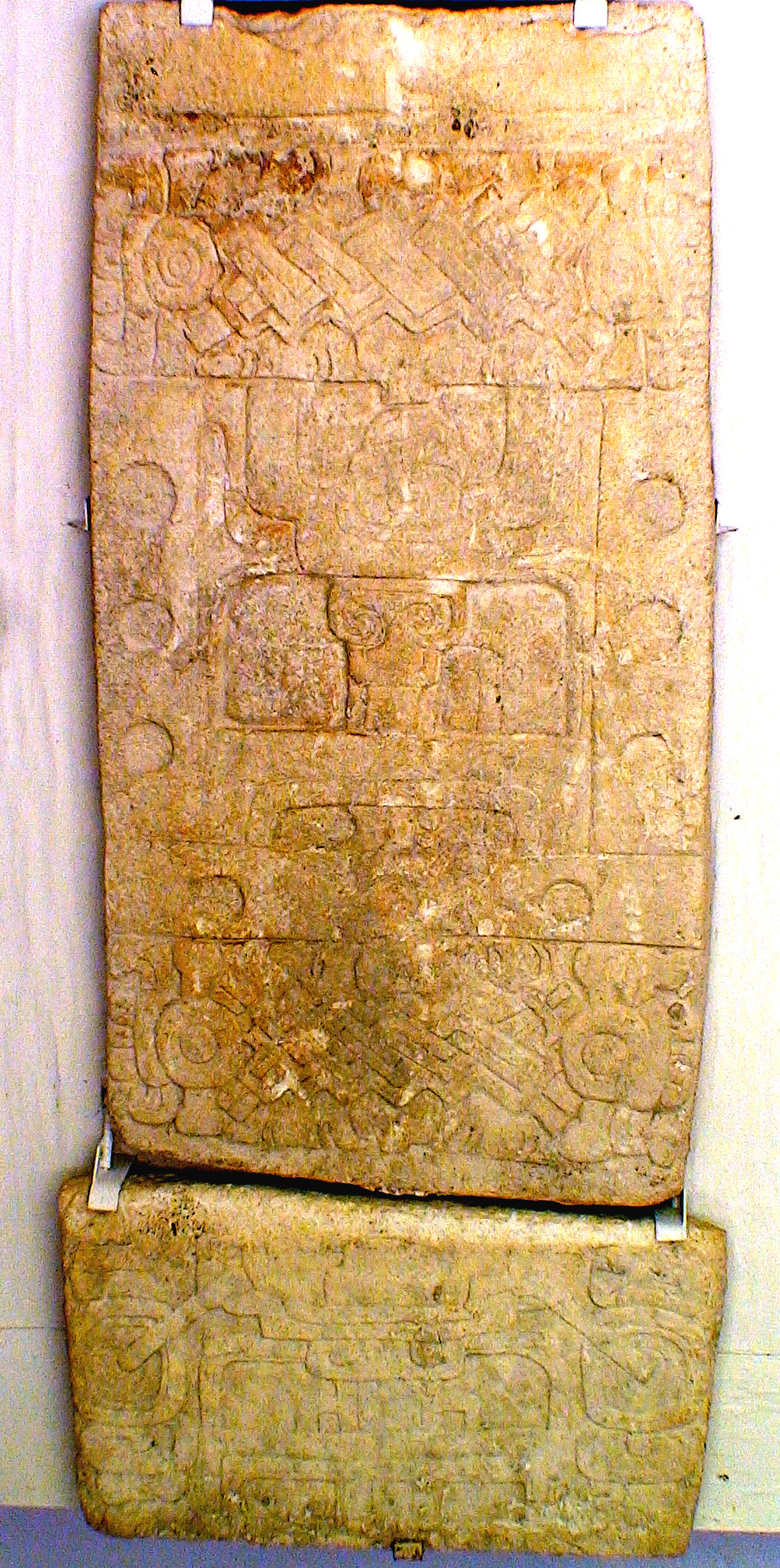 Pomoná, Tabasco, Mexico: alfarda of building 4